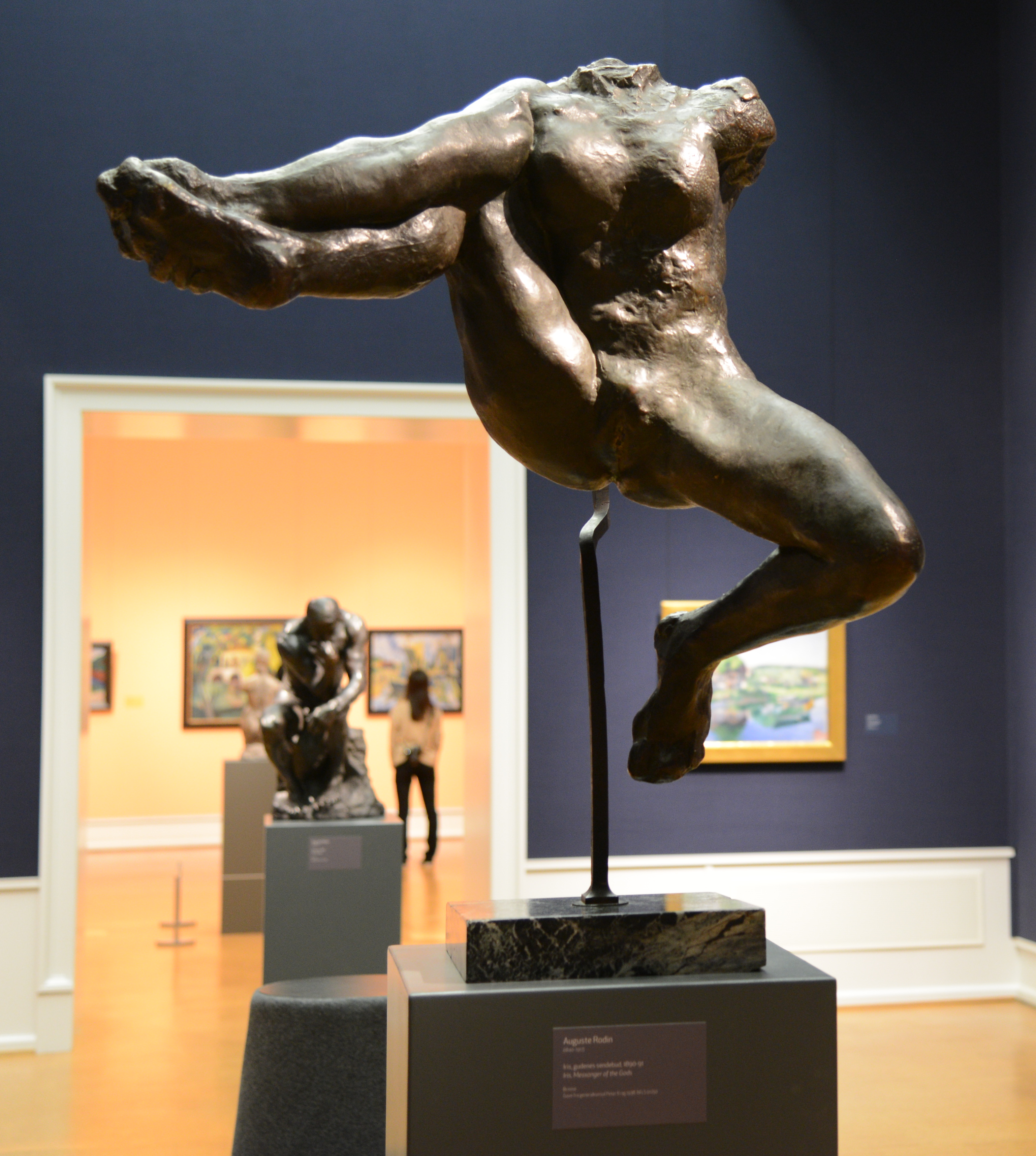 Auguste Rodin, Iris, Messenger of the Gods, National Gallery, Oslo. The National Gallery (Nasjonalgalleriet) is a gallery in Oslo, Norway. The Gallery includes pieces by sculptor Julius Middelthun,[6] painters Johan Christian Claussen Dahl, Erik Werenskiold and Christian Krohg as well as works by Edvard Munch including one version of his Loving Woman. The museum also has old master European paintings by painters such as El Greco, Lucas Cranach the Elder ("Golden Age"), Gaulli ("Sacrifice of Noah"), Orazio Gentileschi, Artemisia Gentileschi, Andrea Locatelli ("Bachannal Scene"), Pieter Elinga ("Letter Carrier"), Ferdinand Bol, Daniel De Blieck ("Church Interior"), Jacob van der Ulft ("Seaport"), Cornelis Bisschop ("Seamstress") and Jan van Goyen. There are also 19th and 20th Century International paintings by Armand Guillaumin, Carl Sohn, Auguste Renoir, Claude Monet ("Rainy Day,Etretat"), Paul Cézanne, and Pablo Picasso. There are also Norwegian paintings by Adolph Tidemand, Hans Gude, Harriet Backer, and Lars Jorde